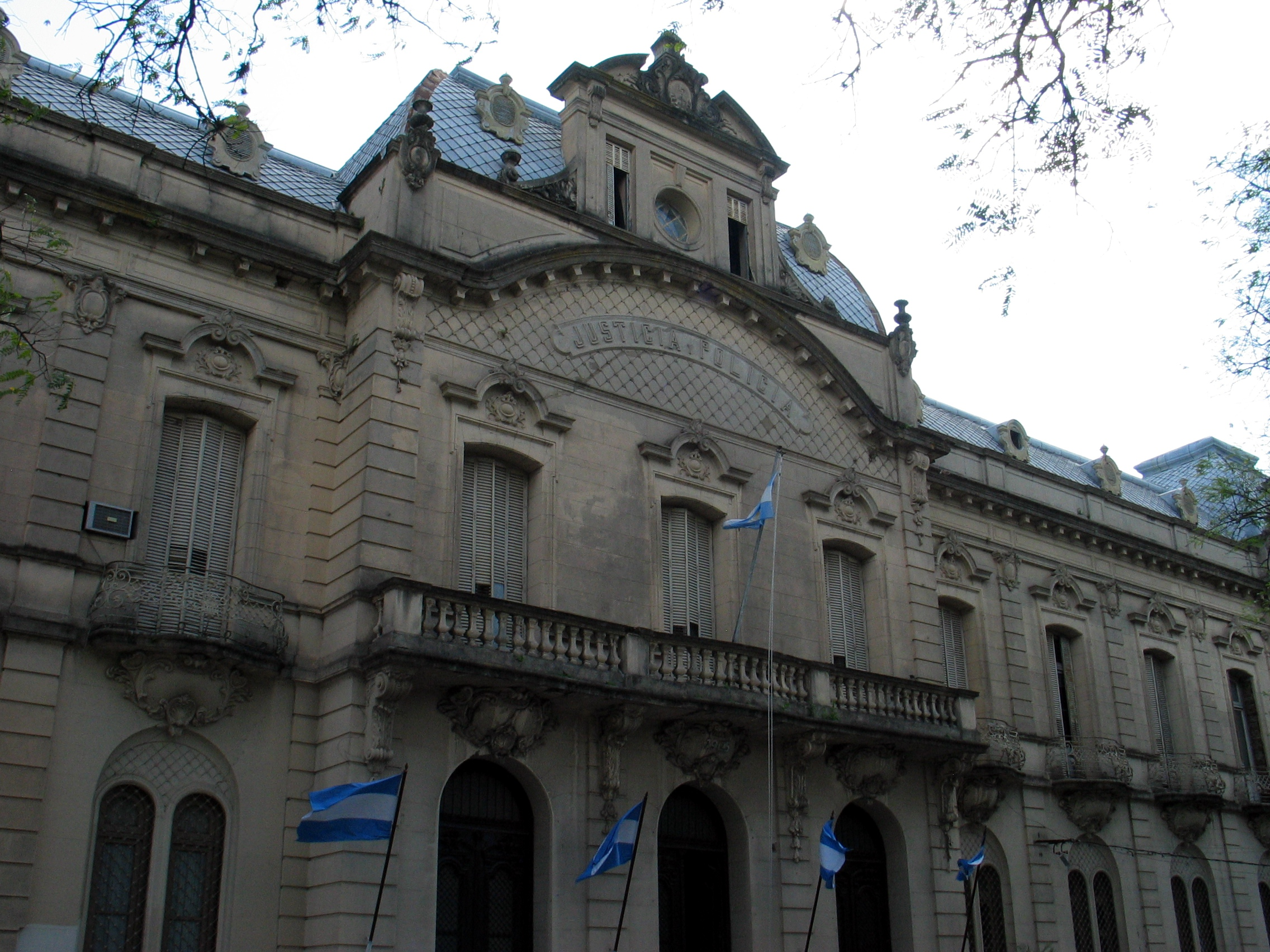 Martínez's House